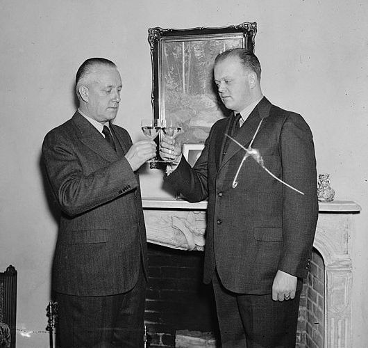 Dr. Eero Jarnefelt, (left) Finland Minister to the United States, and Dr. Sigurd Von Numers, Secretary of the Finnish Legation, drink a toast to the health of their President Pehr Evind Svinhufvudt [Svinhufvud], who is celebrating his 75th birthday in Washington, D.C.